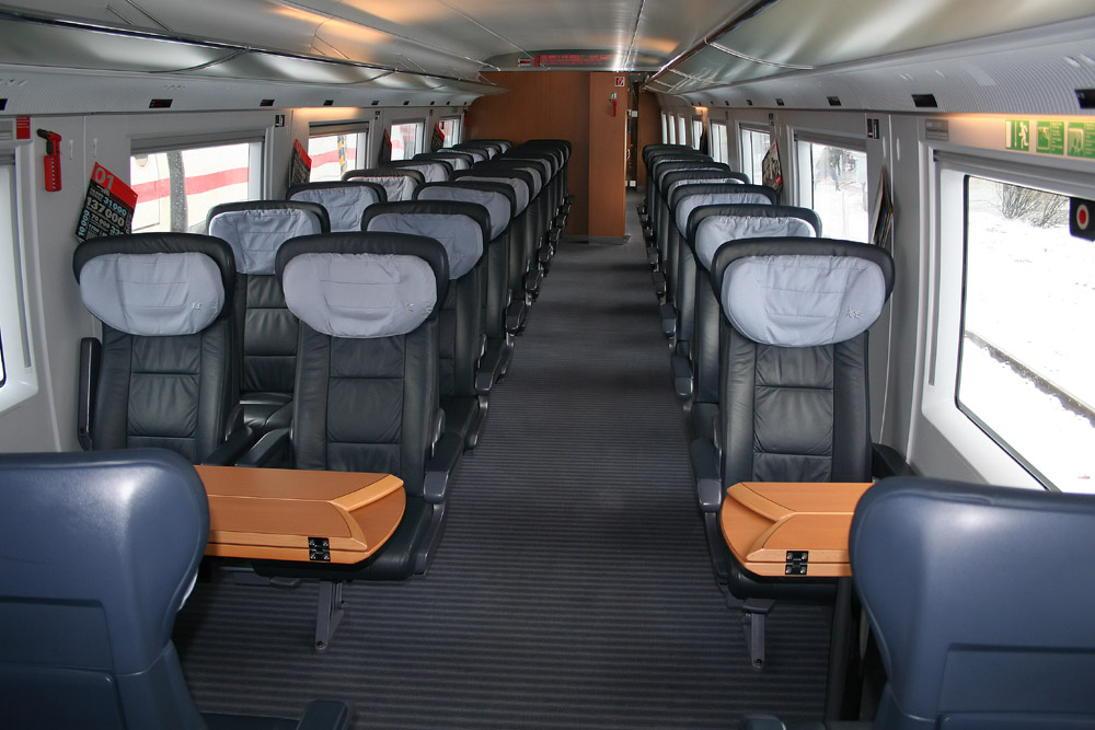 The first class on board a Deutsche Bahn ICE 3 train